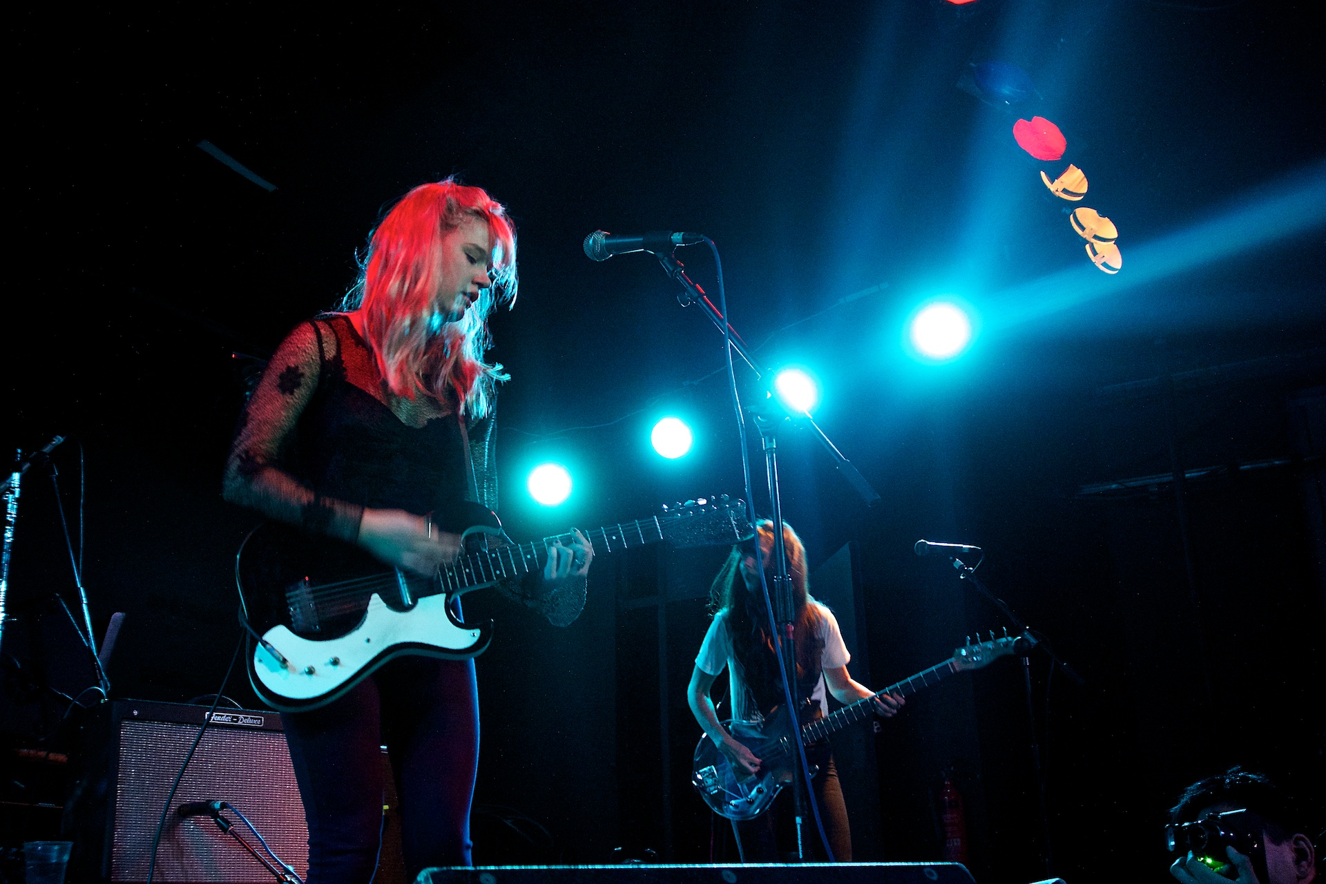 Bleached playing at Tufnell Park Dome in October 2013